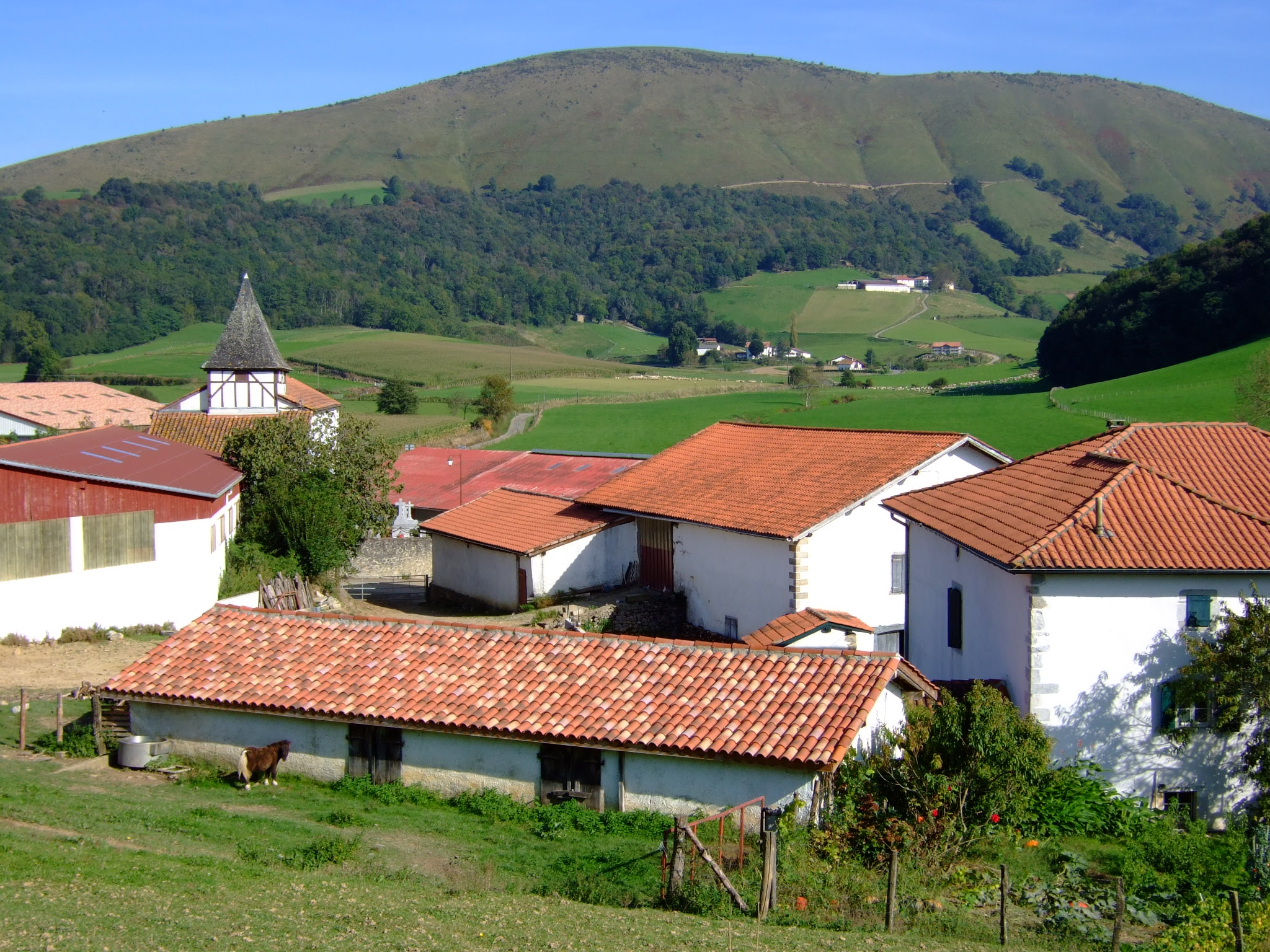 Gamarthe